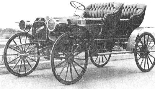 1909 Zimmerman High wheel Surrey Model I; one of two models offered for 1909 (the other was the runabout Model H) Bopth used air cooled twin cylinder Model engines with 14 or 16 hp, and chain drive combined with either planetary or friction transmission.